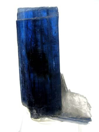 Kyanite, Quartz Locality: Barra de Salinas district, Barra de Salinas, Coronel Murta, Jequitinhonha valley, Minas Gerais, Southeast Region, Brazil (Locality at ) This relatively thick crystal with a tiered , complete termination, has INTENSE blue color. It displays nicely with accenting quartz at the base. Although it is rougher than atop, the bottom is also terminated, as it attaches to the quartz. THE COLOR IS THE DEEPEST BLUE I HAVE EVER SEEN IN A KYANITE OF SPECIMEN QUALITY. The price in the gallery may have seemed high for a kyanite, at $375, but when you see it in person, you will definitely agree it is worth it and quite exceptional. Kyanites are usually perceived as rather dull, opaque blades of mottled white and blue, embedded in quartz, and not suitable for the serious collector. However, once in awhile, you get these stunning, transparent-to-translucent crystals, some perched perfectly on matrix of quartz instead of embedded inside of it. 4.6 x 2.8 x 1.3 cm